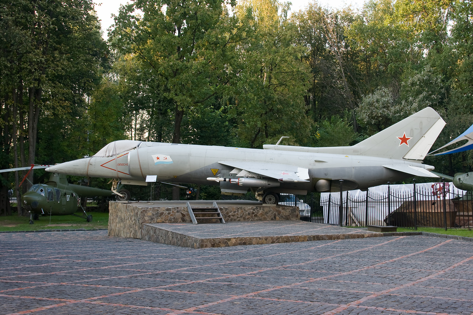 Yakovlev Yak-38